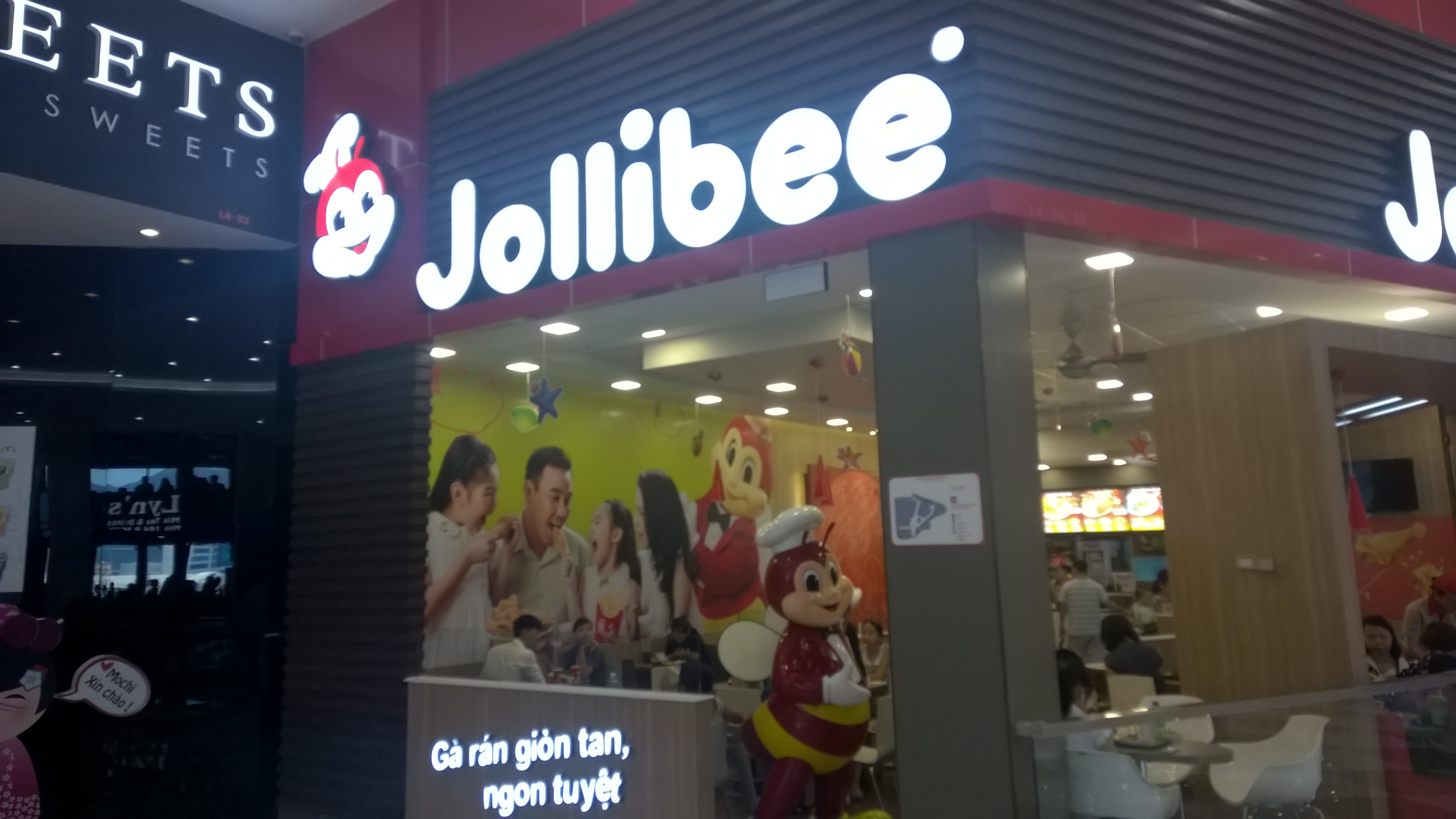 The Vincom Jollibee Da Nang in 2015.